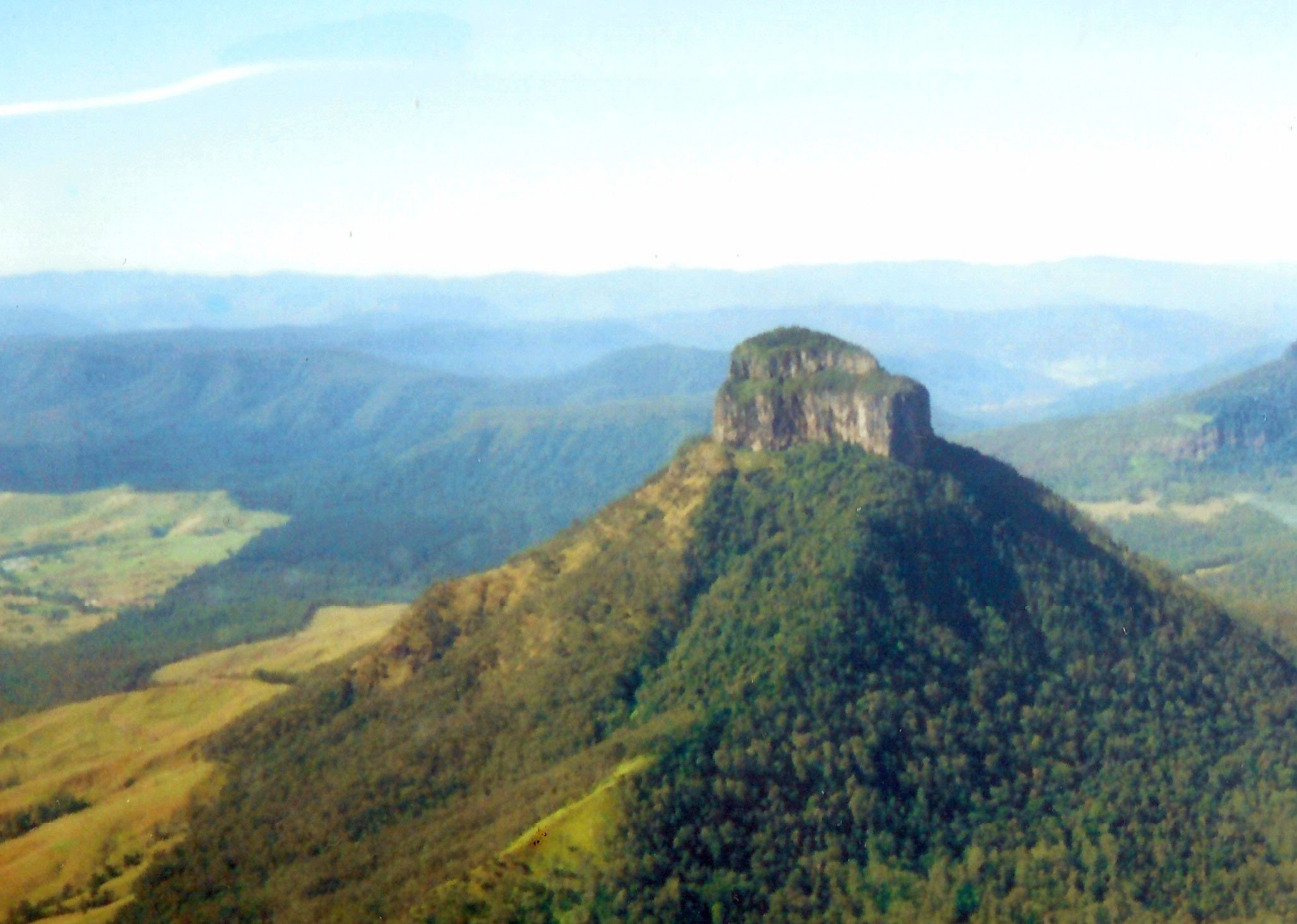 Scan of photo from light plane of Mount Lindesay, Queensland, Australia. Palen Creek and the McPherson Range are visible in the background. View is facing east towards the Border Ranges, Mount Warning and the coast.